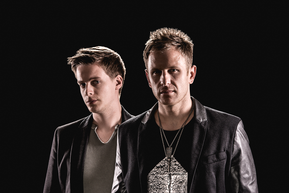 Press shot of Chad Cisneros and David Reed of Tritonal